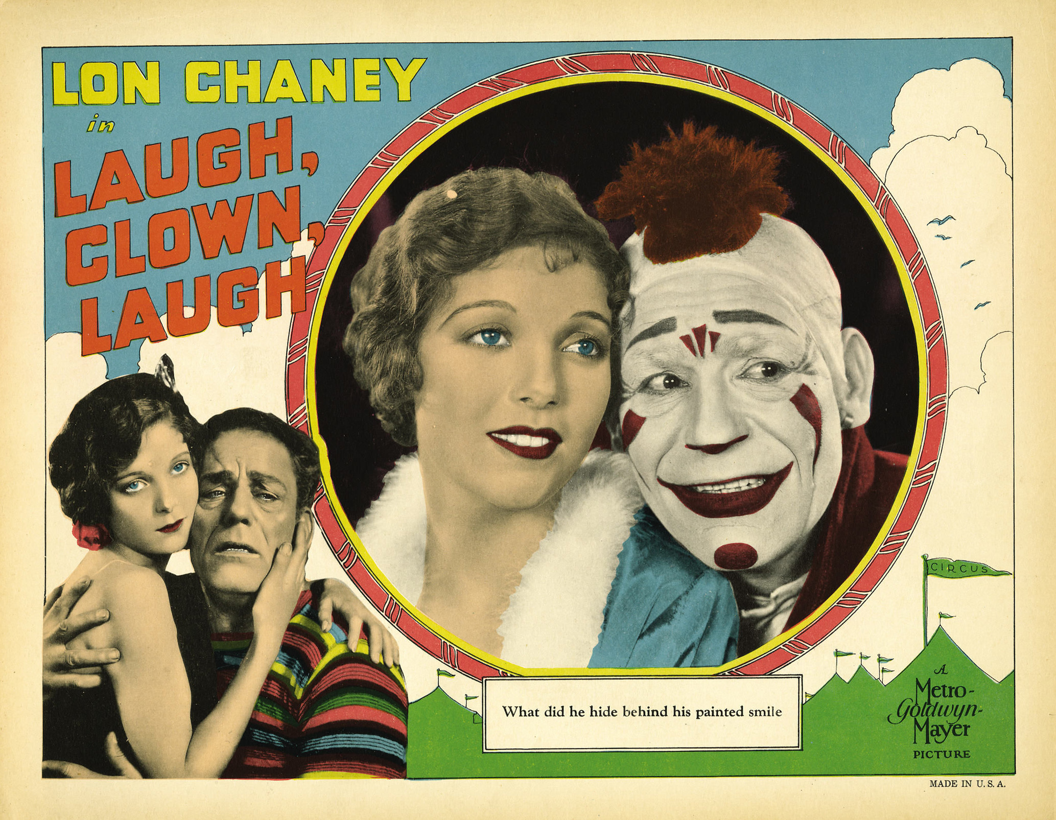 Film poster for the American drama film Laugh, Clown, Laugh (1928).